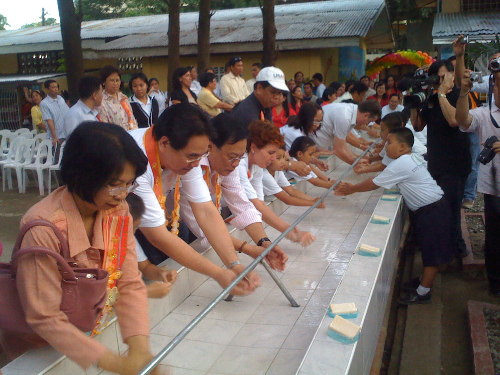 picture taken during Global Handwashing Day 2008 activities and the simultaneous launching of the Essential Health Care Package (EHCP) for Philipino Children (includes handwashing, tooth brushing and twice a year deworming) . Global Handwashing Day 2008 celebration with the Philippine Education Secretary Jesli Lapus and Congressman Rufus Rodriguez at City Central School (Cagayan de Oro) photo provided by Robert Gensch